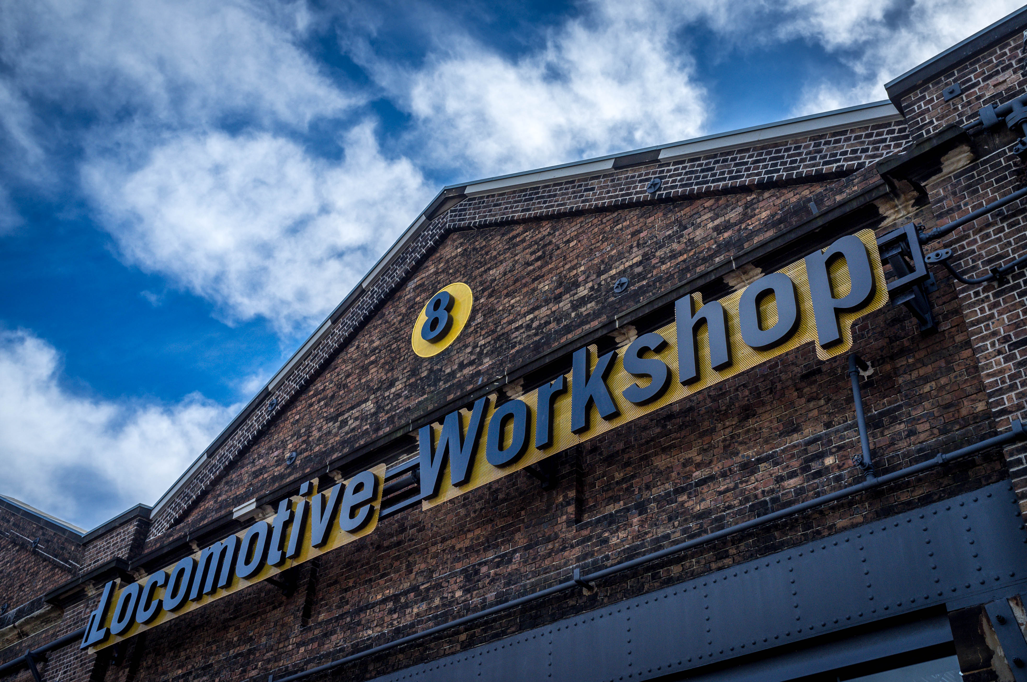 NSWGR Eveleigh Locomotive Workshops bay 8